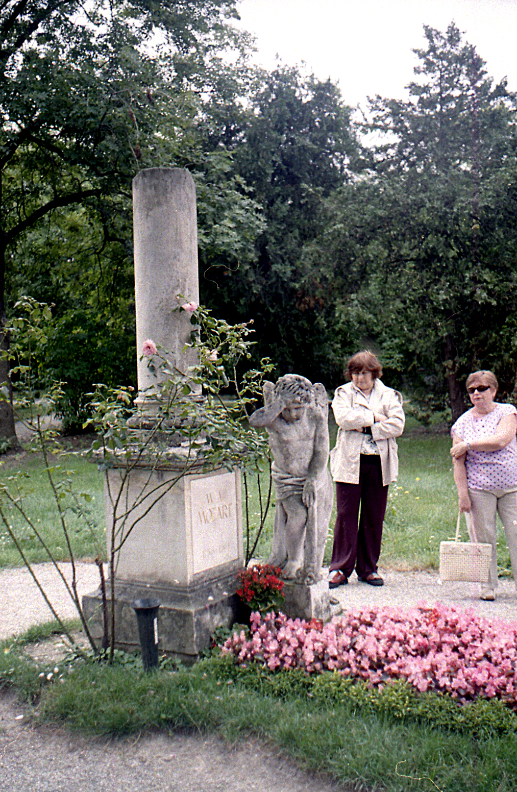 Austria, Vienna, St. Marx Cemetery, The gravestone of Wolfgang Amadeus Mozart